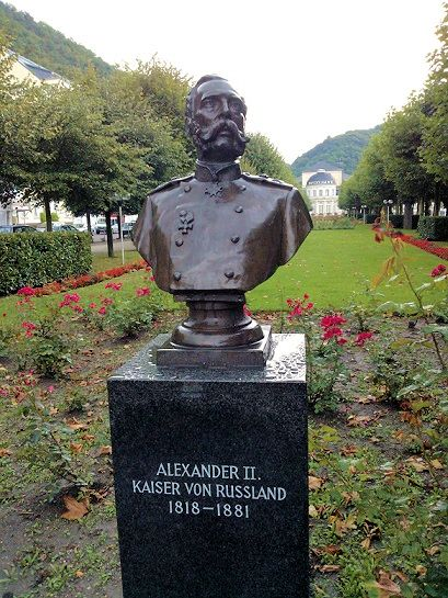 Alexander II of Russia. Bad Ems. Deutschland